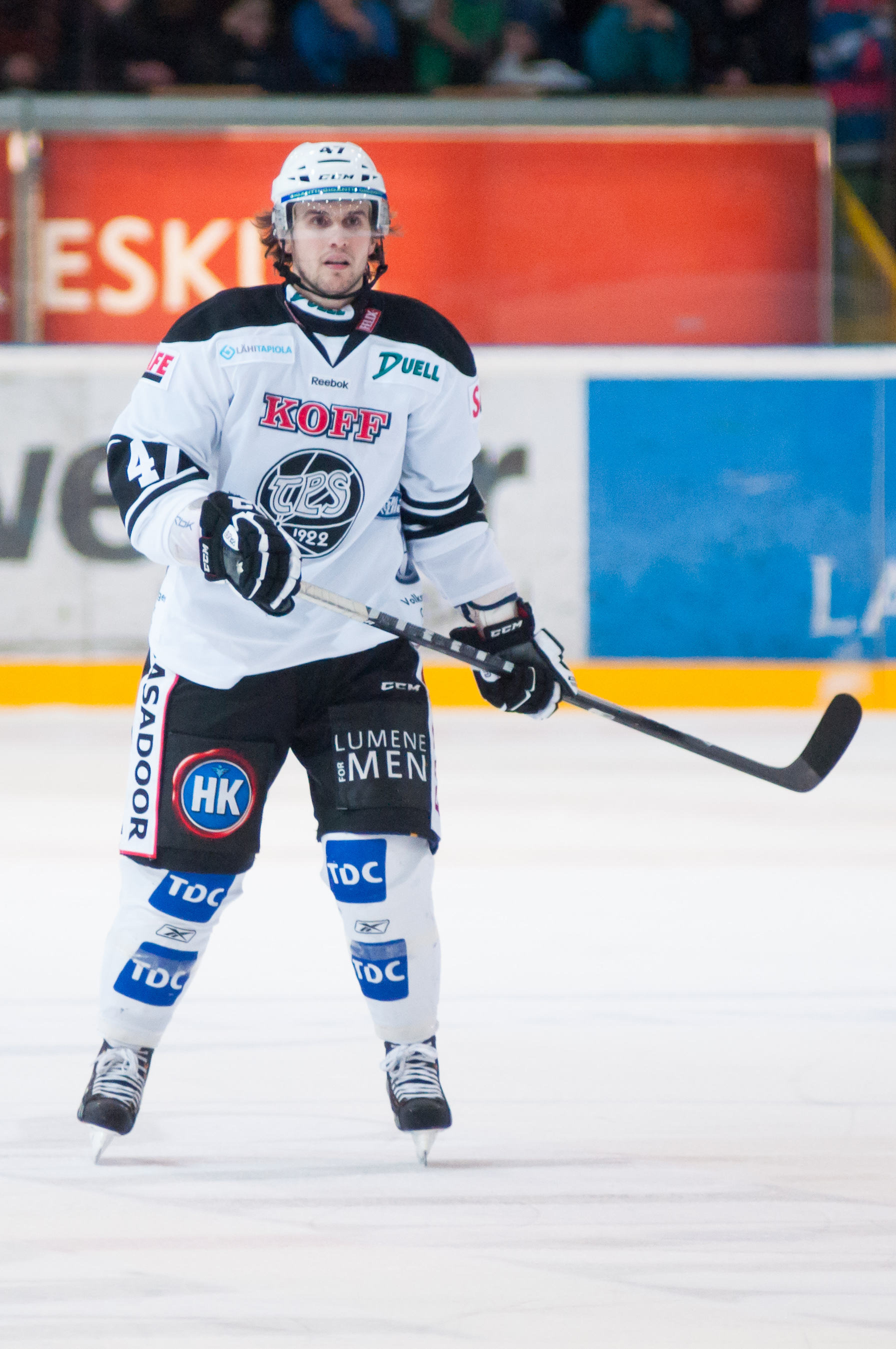 Canadian ice hockey defenseman Kris Russell playing for Turun Palloseura against SaiPa Lappeenranta in Lappeenranta, Finland.